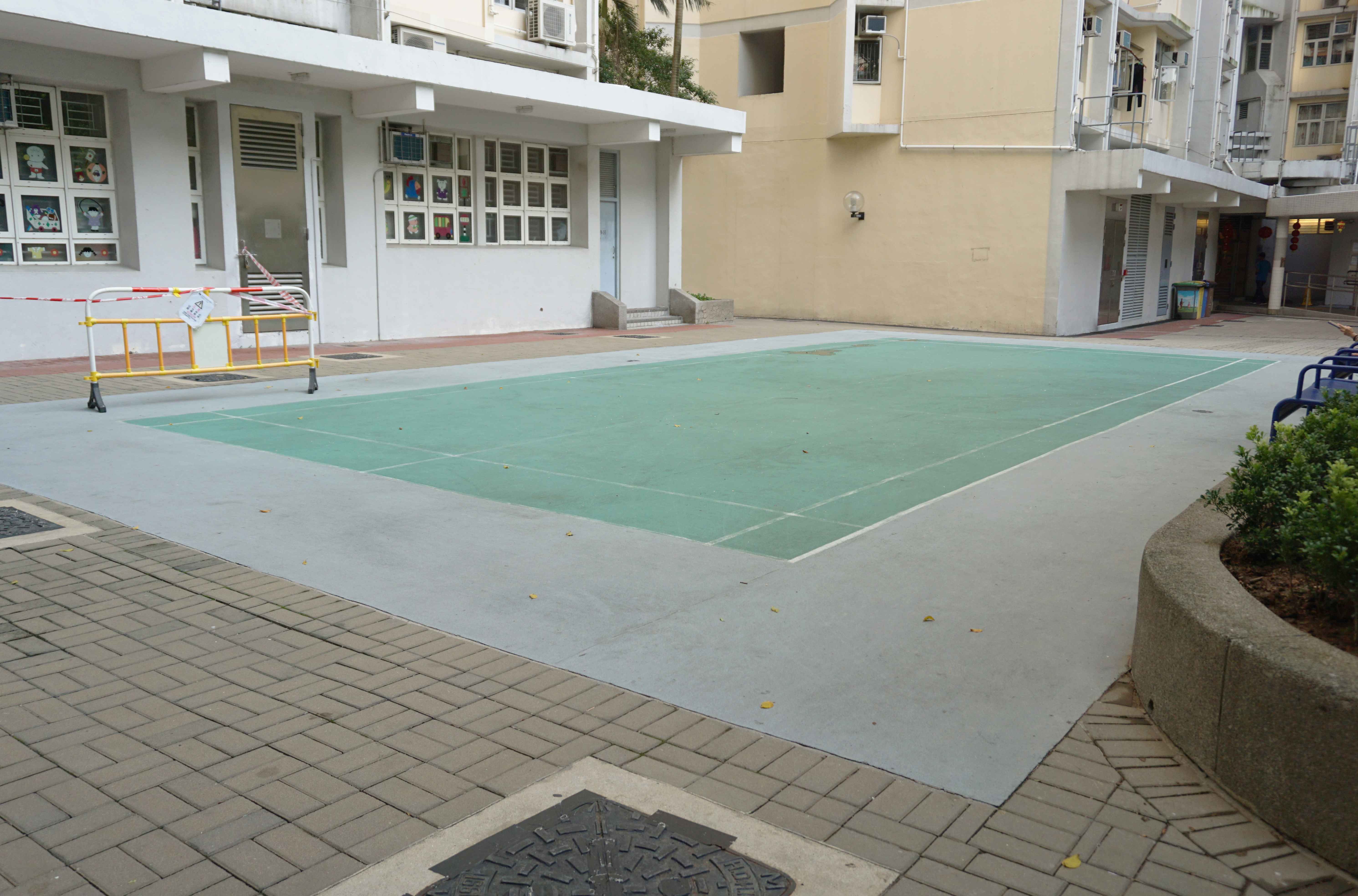 Ka Fuk Estate in Fanling, Hong Kong.